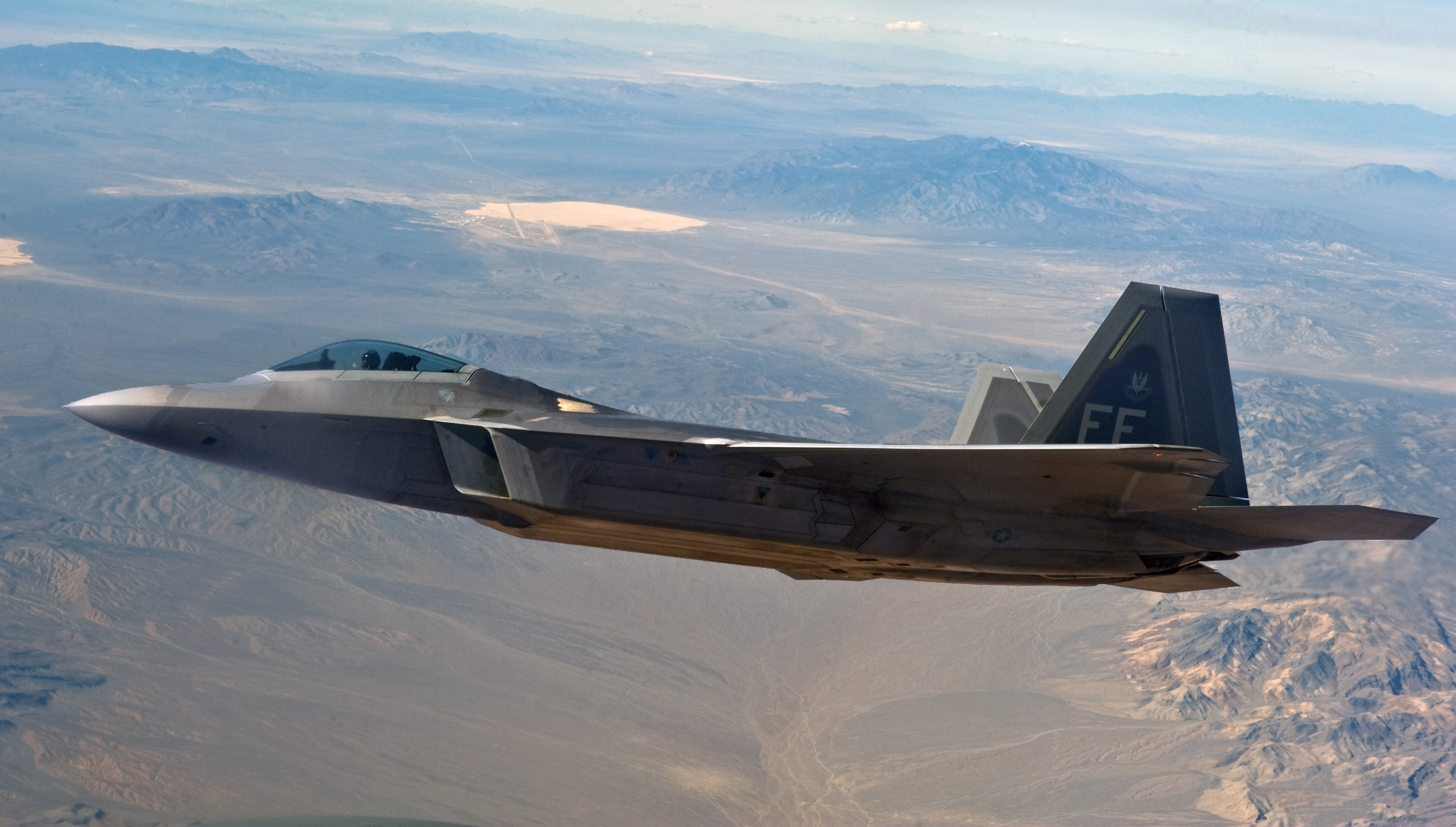 F-22 Raptor during "Red Flag" exercise in front of Area 51 (March 5, 2013)